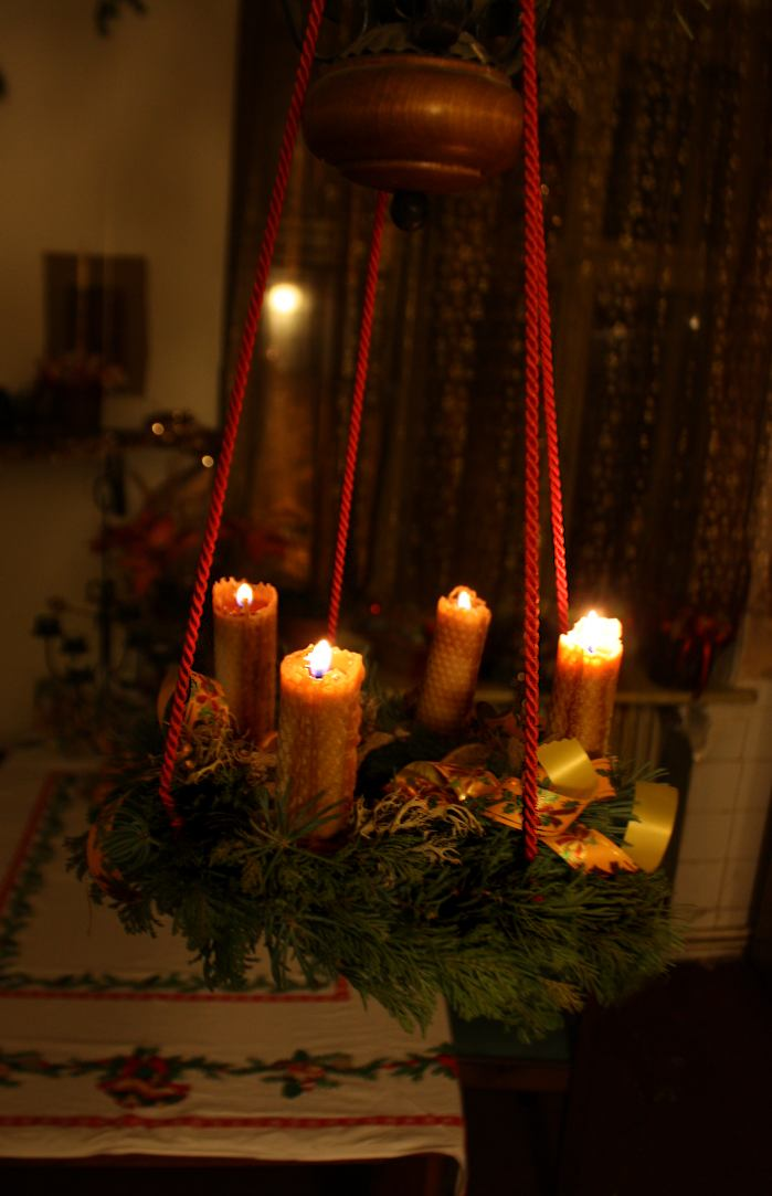 Advent wreath,mixed thuja occ., taxus, juniper, candle from bee wax